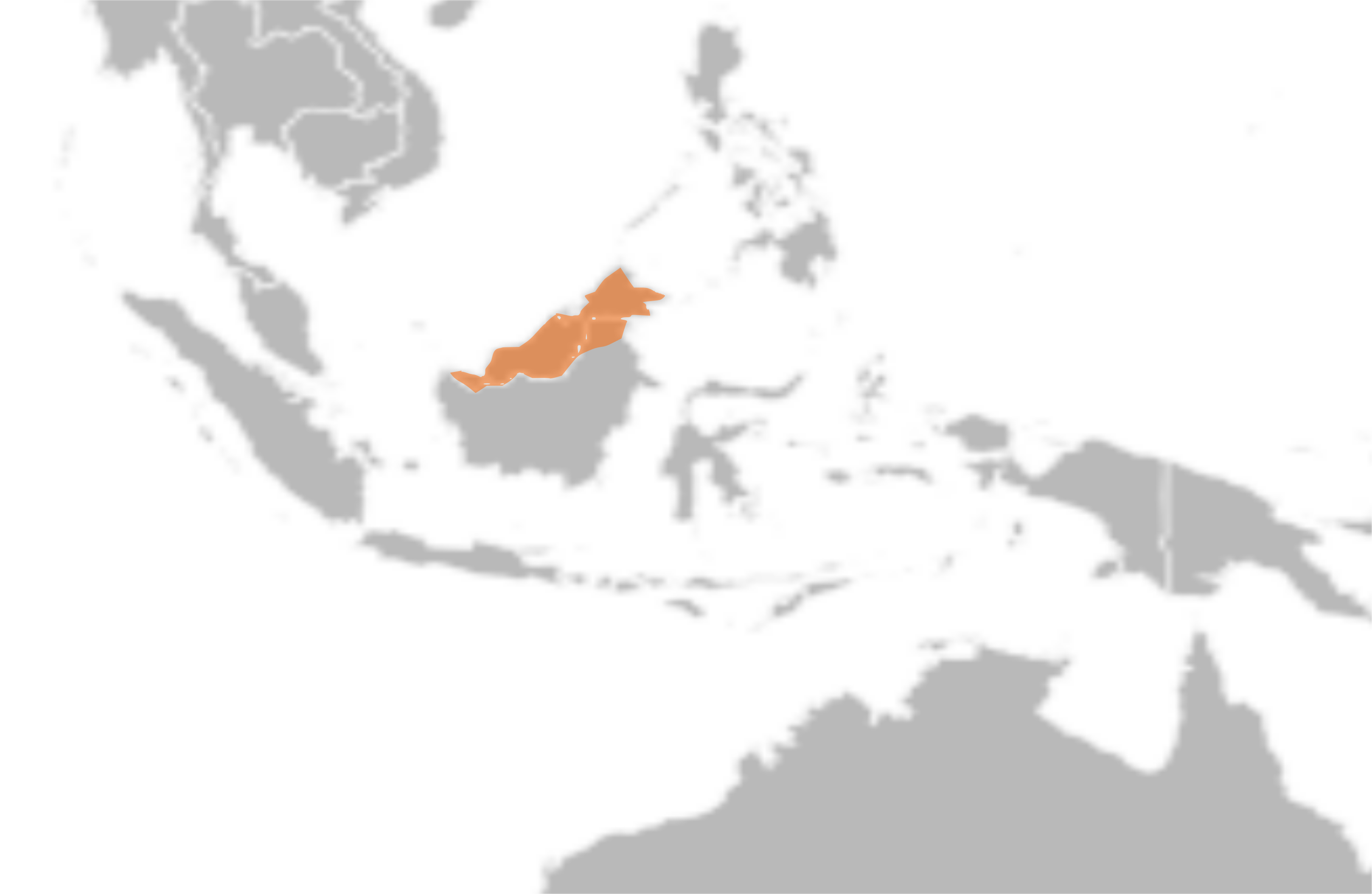 Distribution map for the trilobite beetle species Platerodrilus paradoxus. Original blank SVG map by author Frank Bennett Made with Inkscape